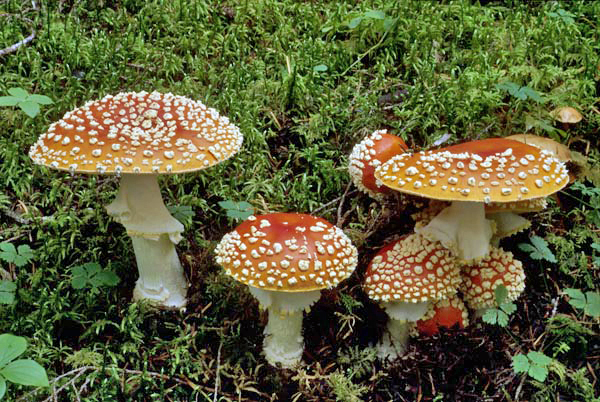 Fly agaric / Amanita muscaria (Copyright Steven A. Trudell; reprinted with permission)